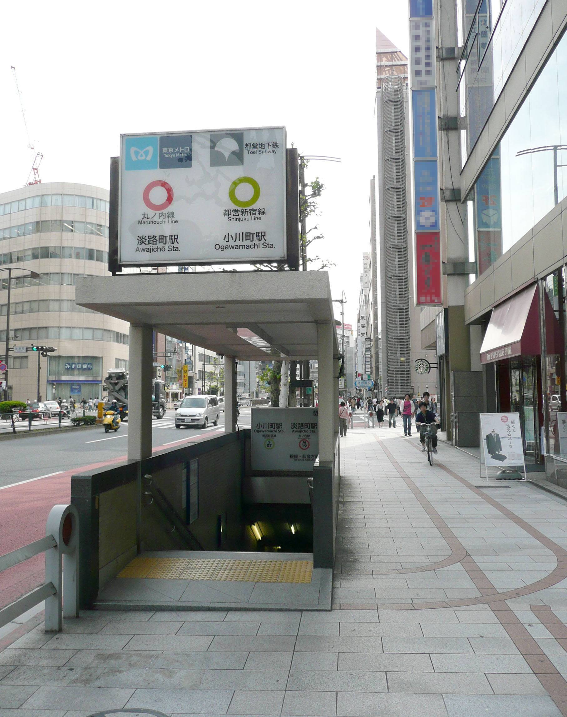 Entrance A3 to Tokyo Metro Awajichō Station and Toei Ogawamachi Station in Tokyo